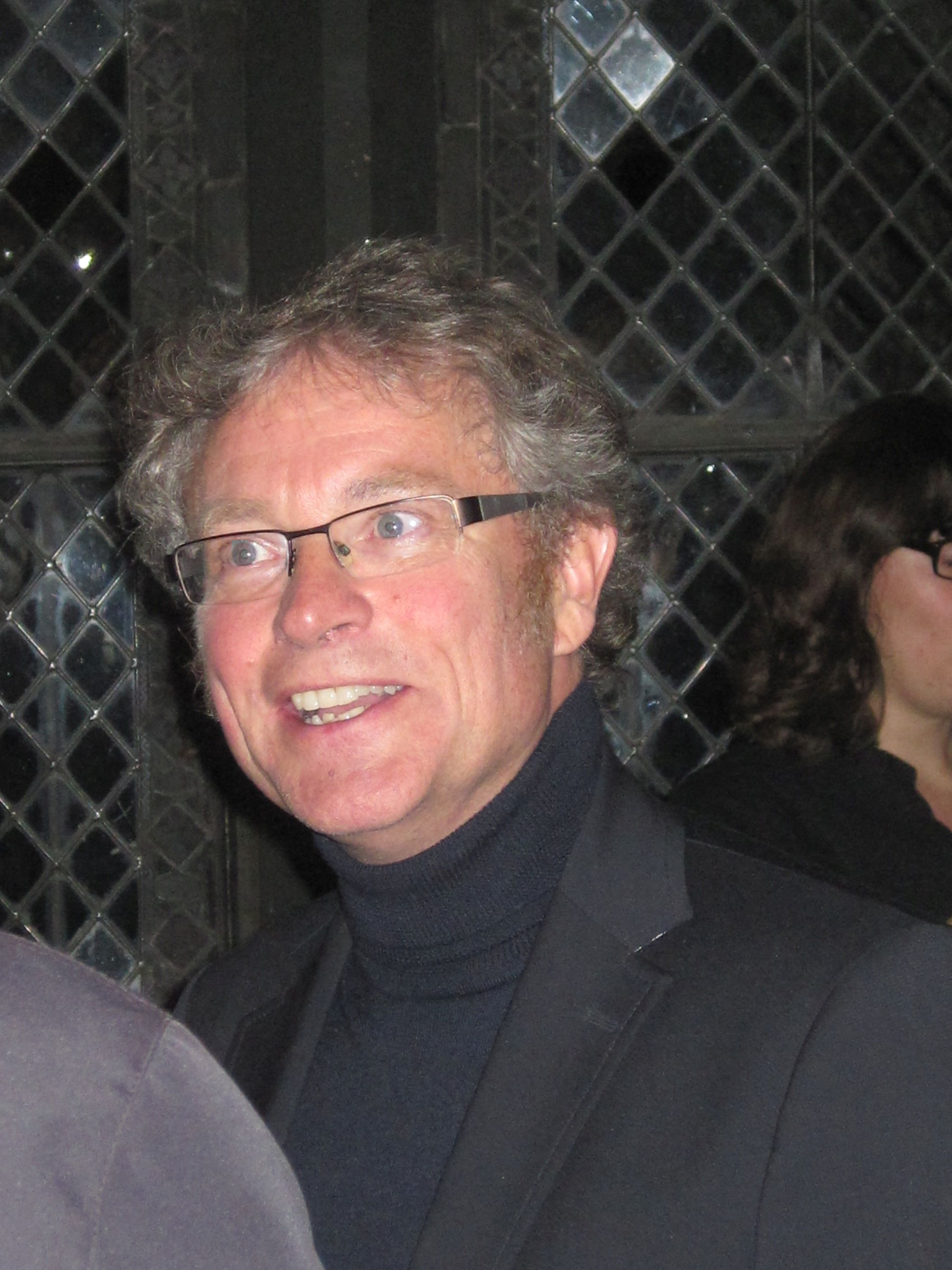 German religious studies professor Christoph Kleine, 2015